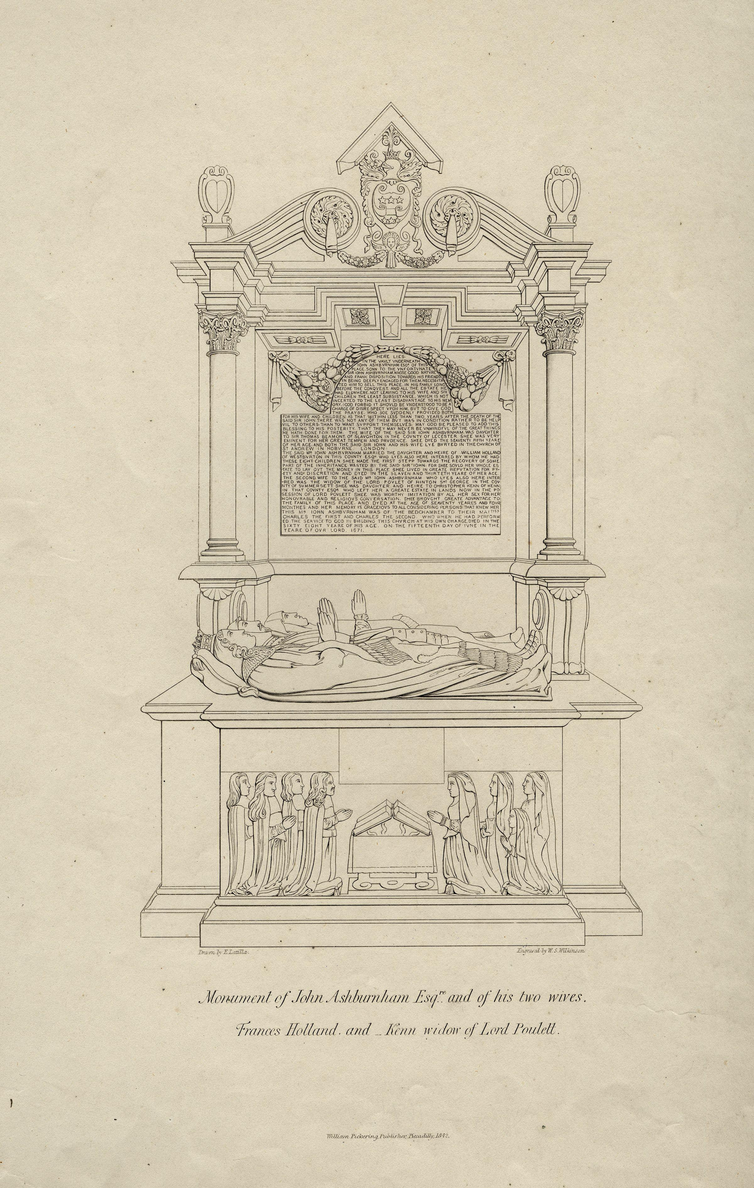 Monument of John Ashburnham Esq..re and his two wives, by Eugenio H. Latilla. All images in this batch have a known author, but have manually examined for strong evidence that the author was dead before 1939, such as approximate death dates, birth dates, floruit dates, and publication dates.